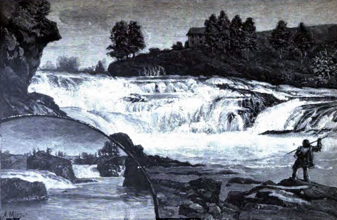 Artist rendering of Spokane Falls, 1888 from the The Great Northwest